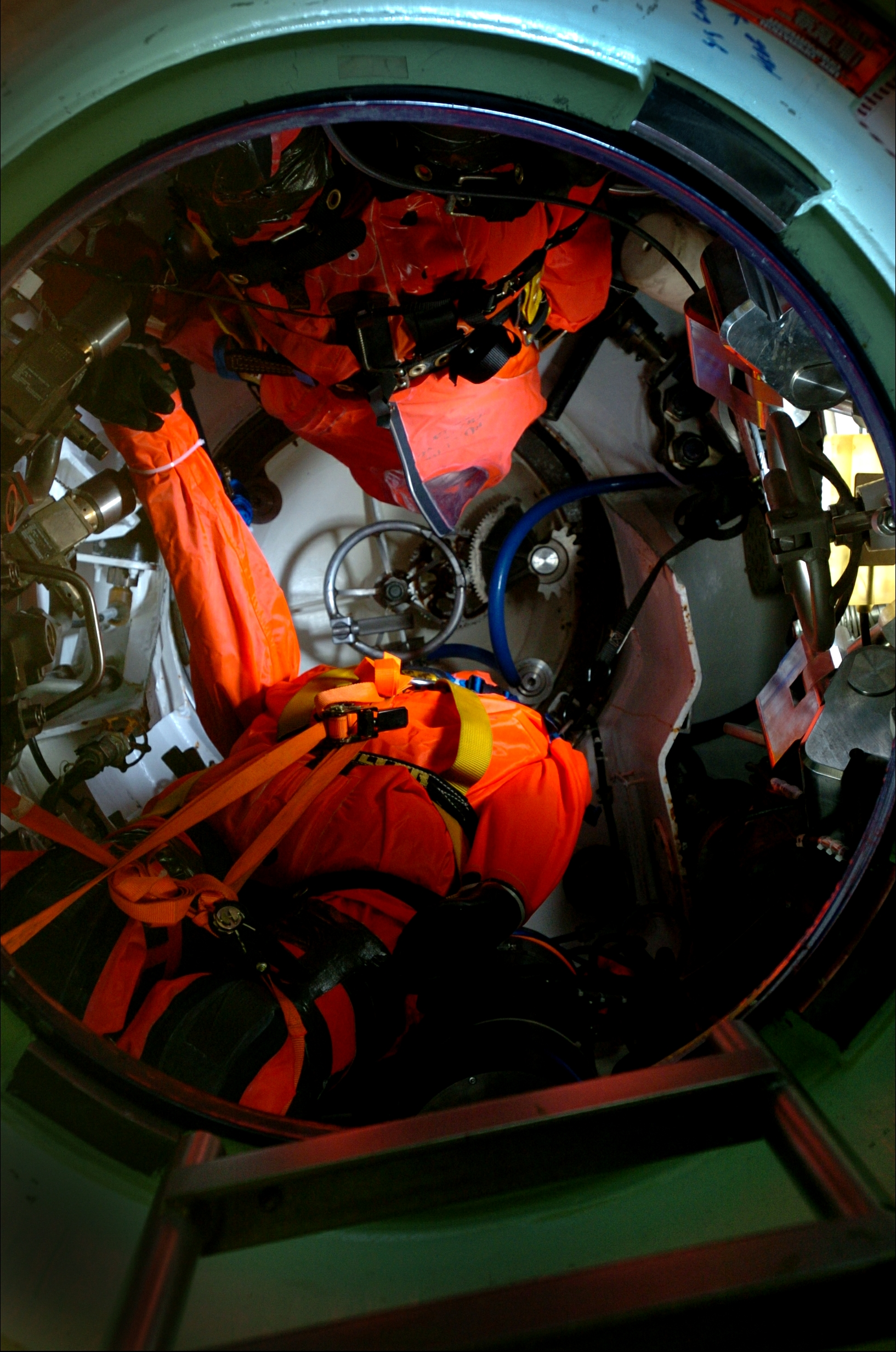 Instrument mannequins dressed out in Submarine Escape Immersion Equipment (SEIE), inside the engine room logistics escape trunk, await the start of Electric Boat's Fully Instrumented Trunk Test aboard PCU Virginia (SSN 774). Virginia's SEIE system is designed to facilitate safe escapes from as deep as 600 feet.